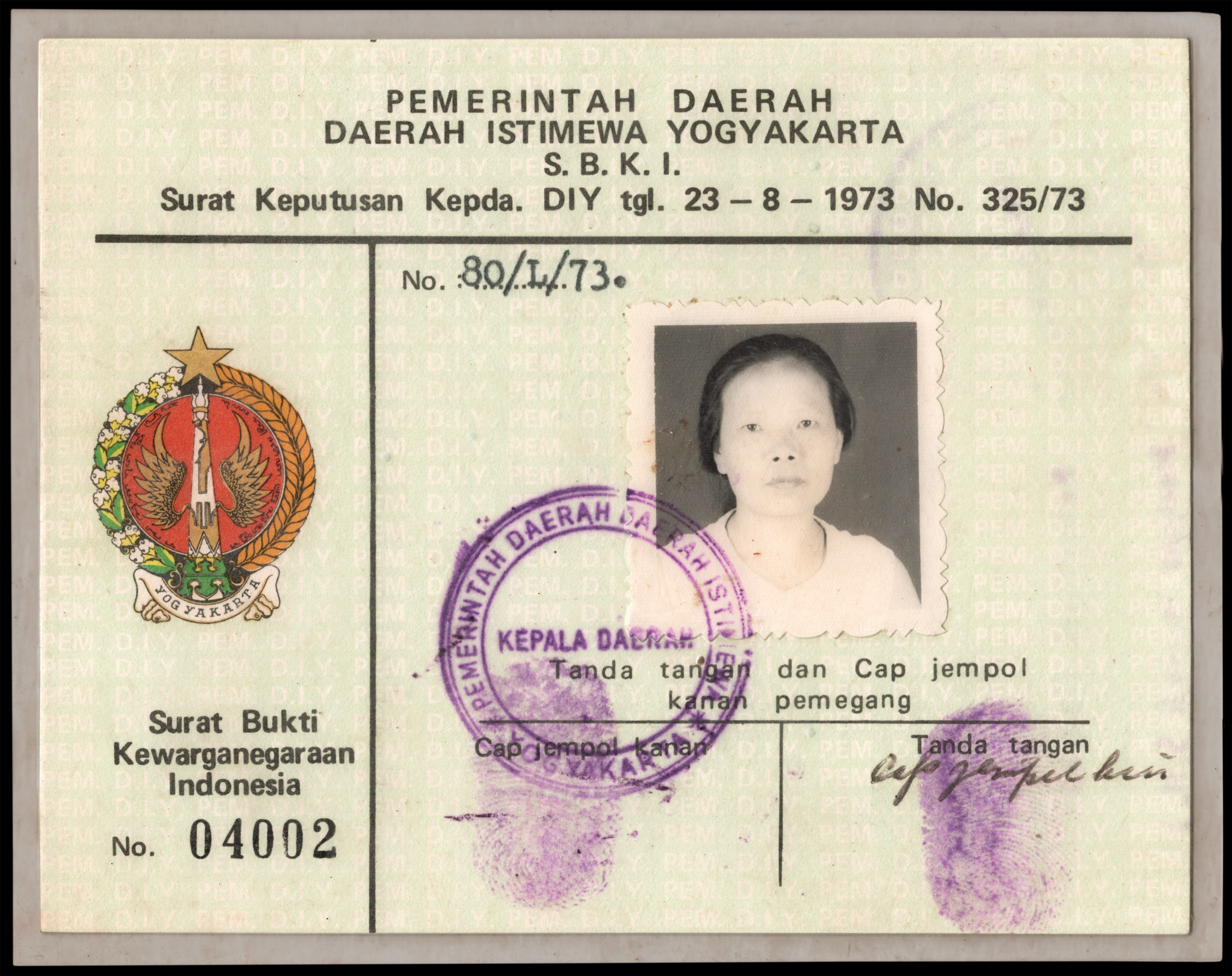 Surat Bukti Kewarganegaraan Indonesia from 1973, obverse. Translation: Regional Government Special Region of Yogyakarta C.P.I.C. Regional Leader of Yogyakarta Decree dated 23-8-197 No. 325/73 No. 80/L/73. Certificate of Proof of Indonesian Citizenship No. 04002 Signature and right thumbprint of cardholder Right thumbprint Signature [written]Left thumbprint